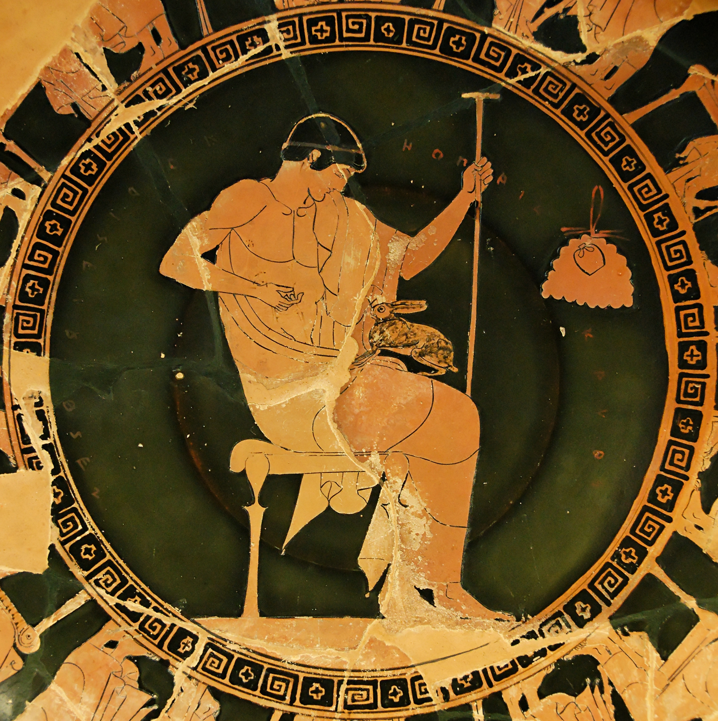 Young man playing with a hare, a pederastic gift. Tondo of an Attic red-figure cup, ca. 480 BC.